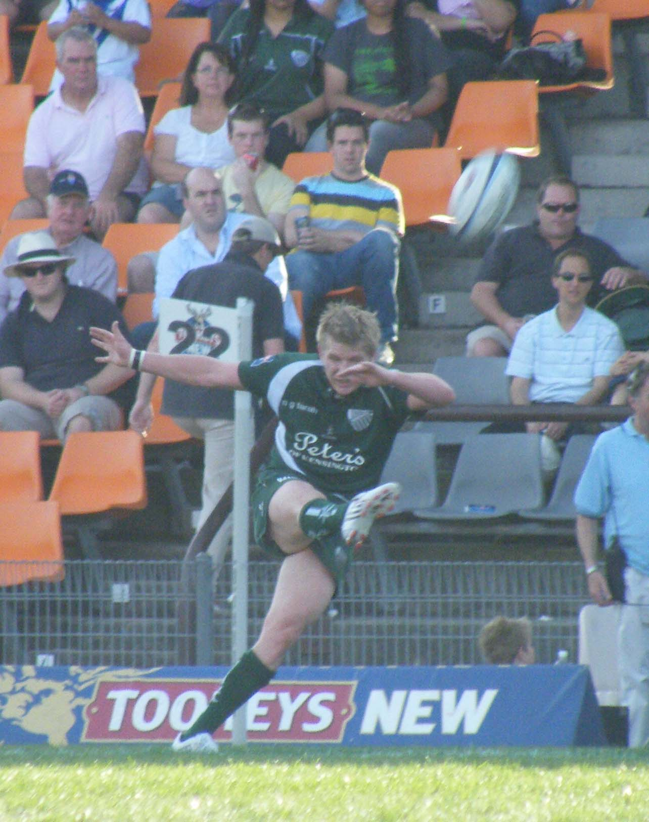 Randwick half-back